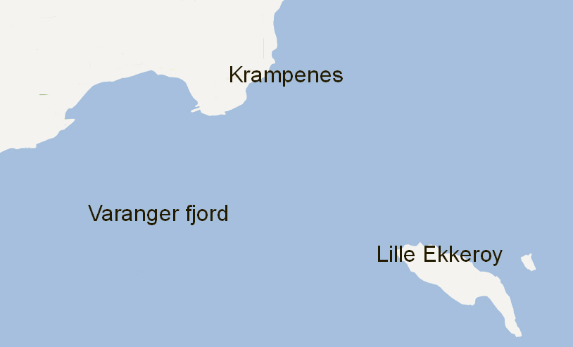 This map shows the location of Lille Ekkeroy island, just to the south of Krampenes on the mainland of the Varanger peninsula